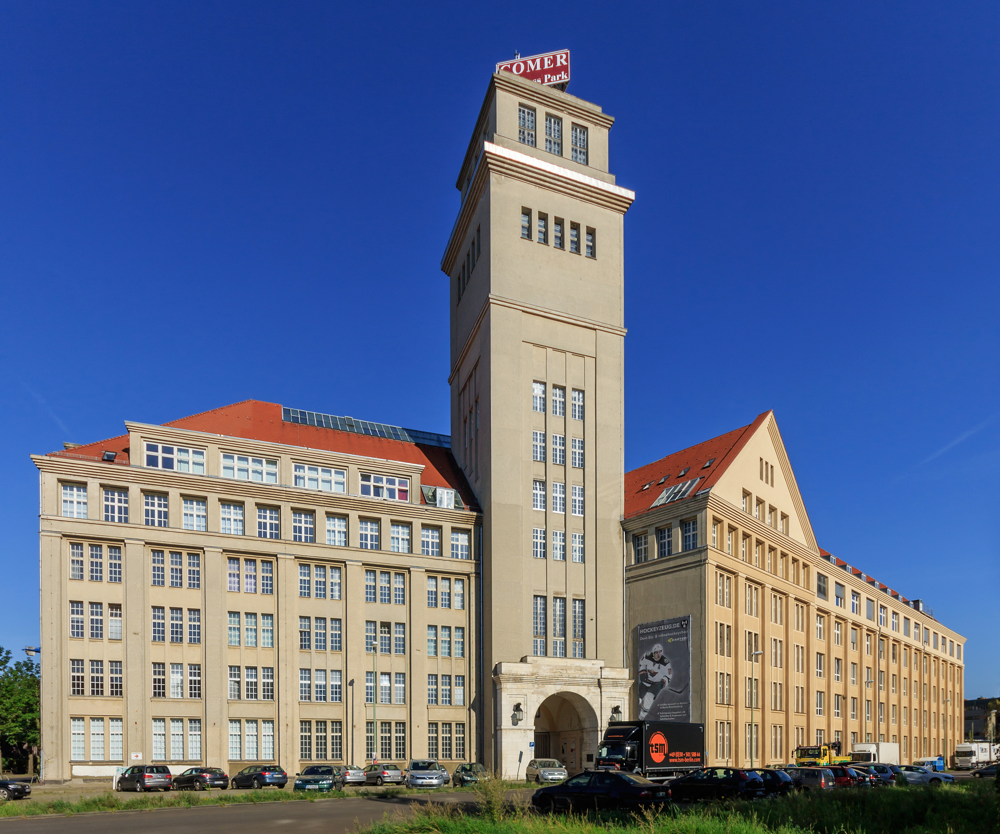 Former industry building in Oberschöneweide in Berlin (Germany)